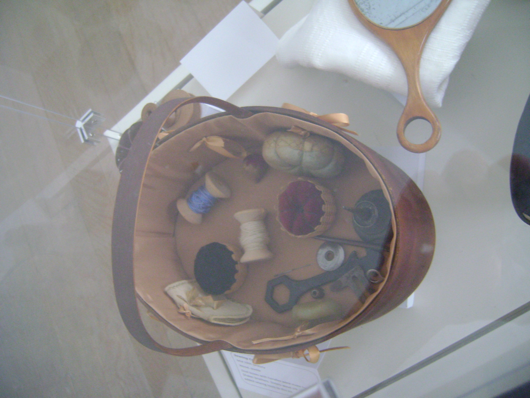 Shaker box with thread spools and other small items inside for carrying